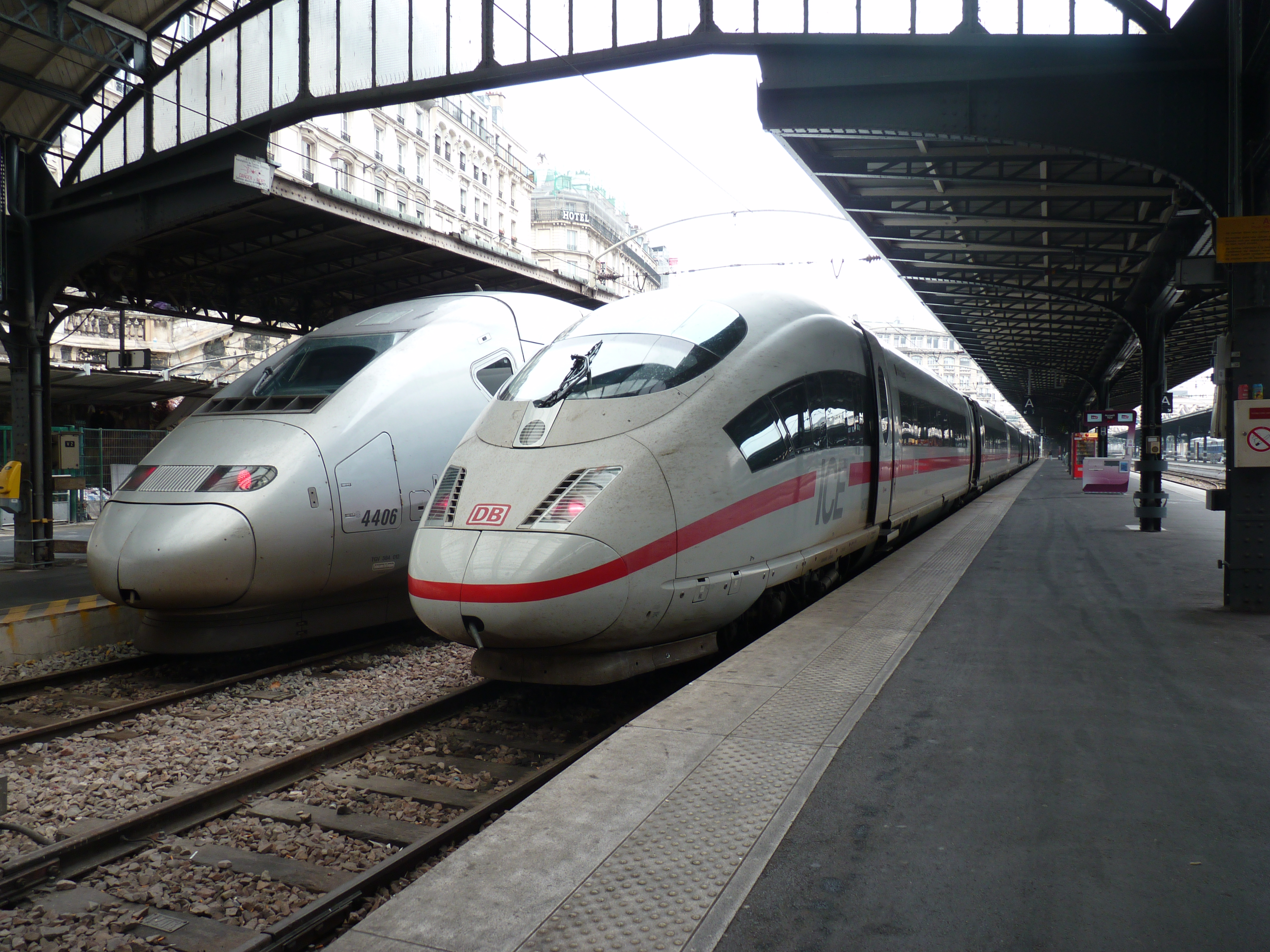 The TGV POS 4406 and an ICE 3M at Paris-Est station.